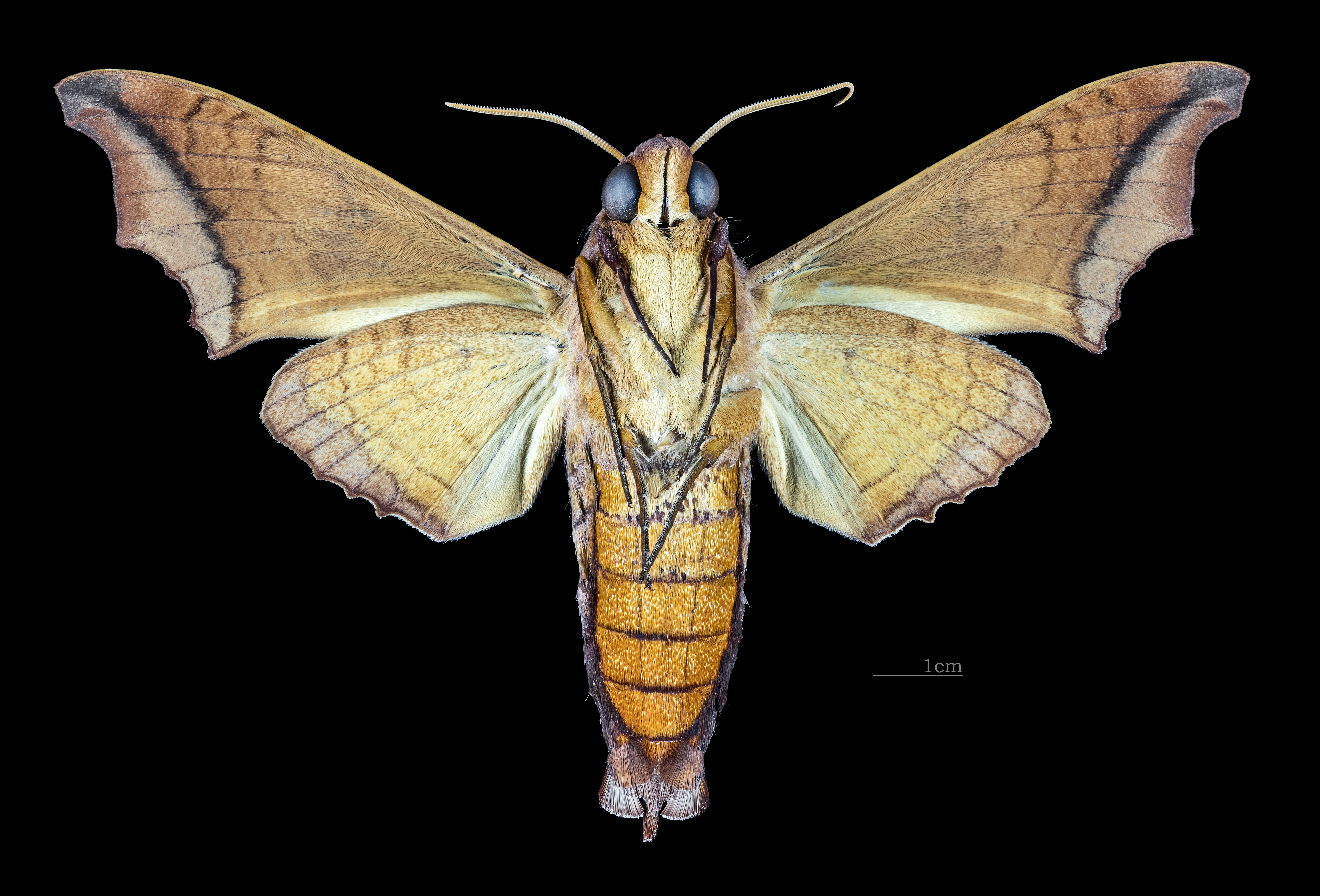 Nyceryx stuarti - △ Ventral side Collection of the Mathematician Laurent Schwartz